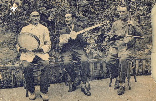 Jabbar Garyagdy and his ansemble